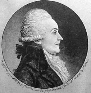 Portrait of Giuseppe Gorani (1740-1819).